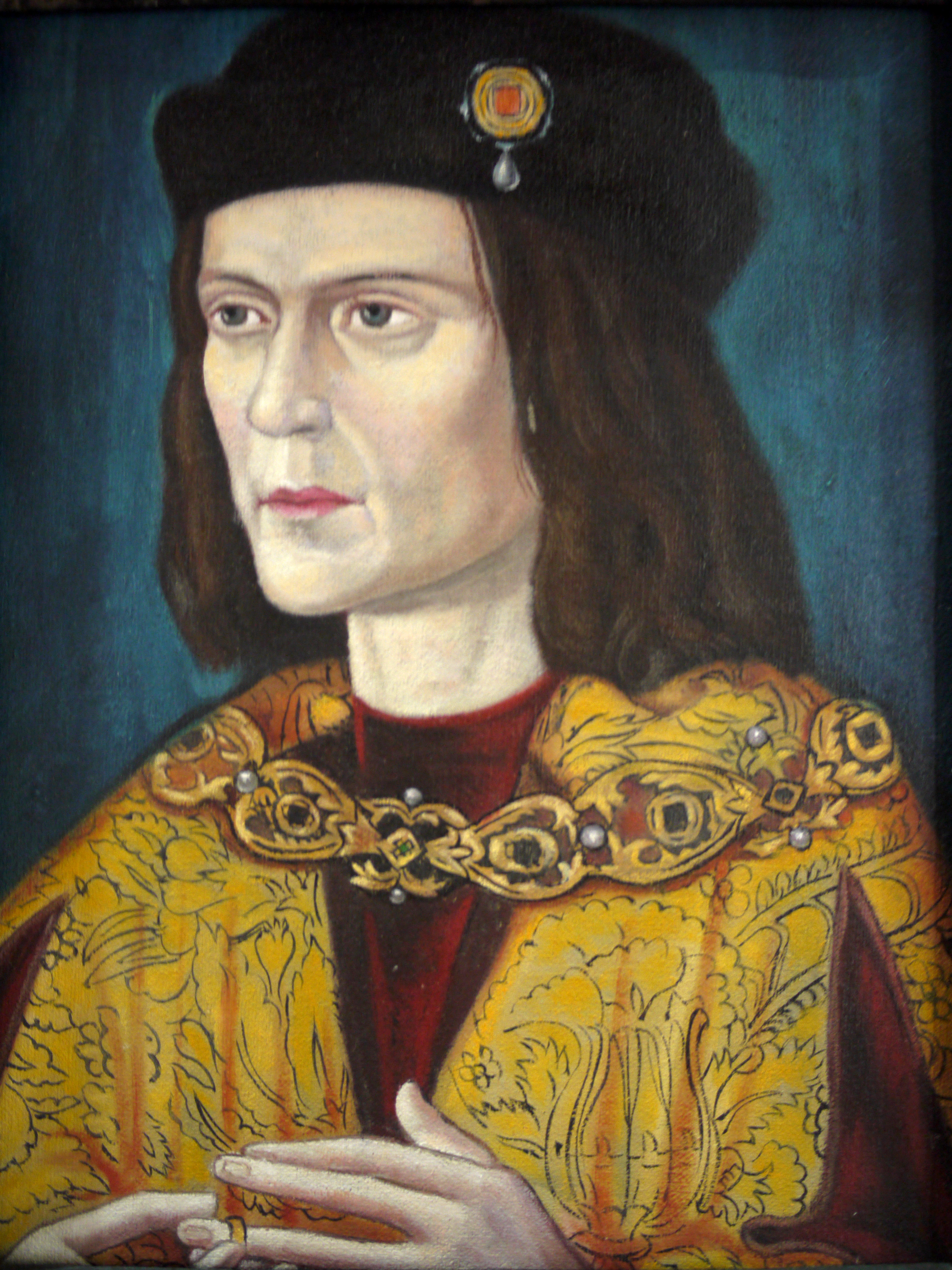 Per all rights are reserved. However this photograph is a faithful reproduction of an oil painting, itself an apparent reproduction of an original assessed as created in 16th-century.